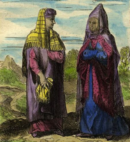 Syrian women, Description de L'Universe (Alain Manesson Mallet, 1683) (cropped).jpg